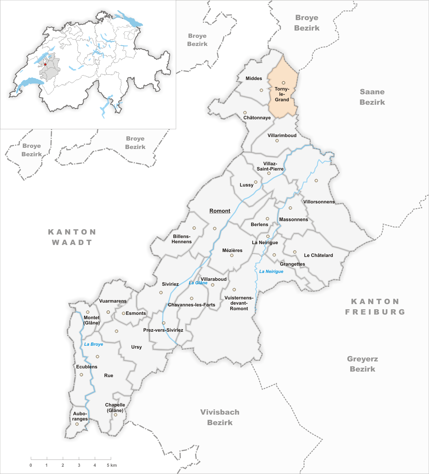 Municipality Torny-le-Grand Artist: Tschubby